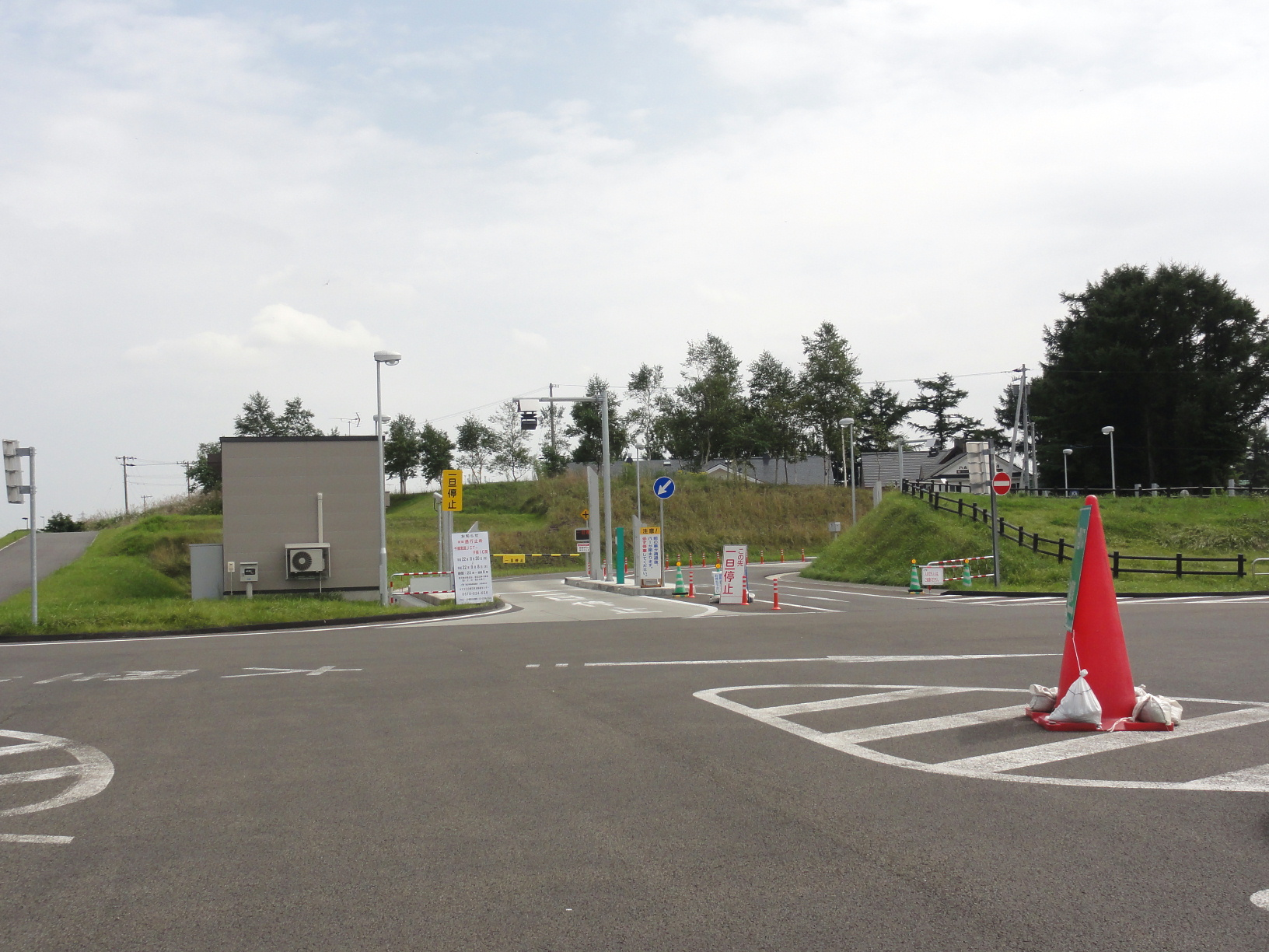 Wattsu Smart Interchange on the Hokkaidō Expressway outbound line for Sapporo